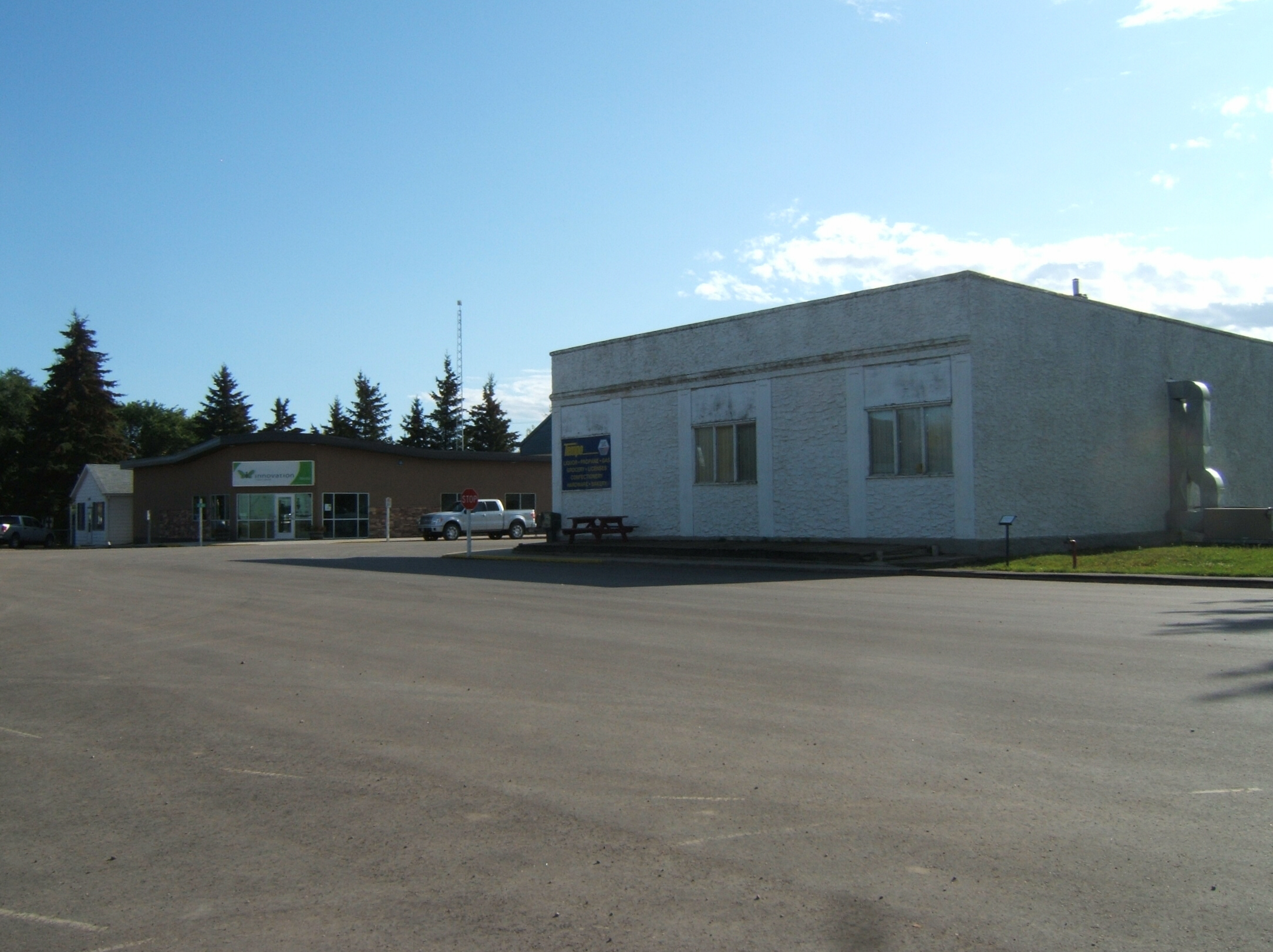 Business district of Meota, Saskatchewan, Canada. Building in foreground was built circa 1906 as Dart's Store.